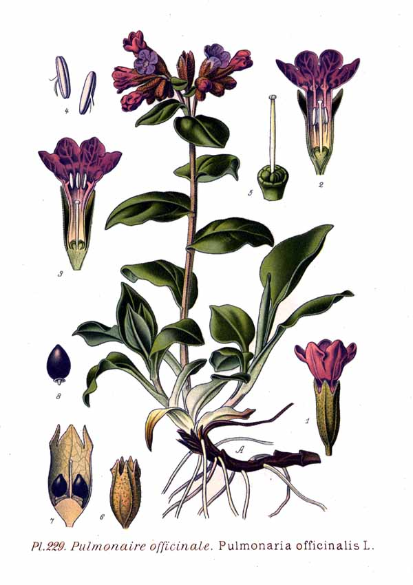 Pulmonaria officinalis L.